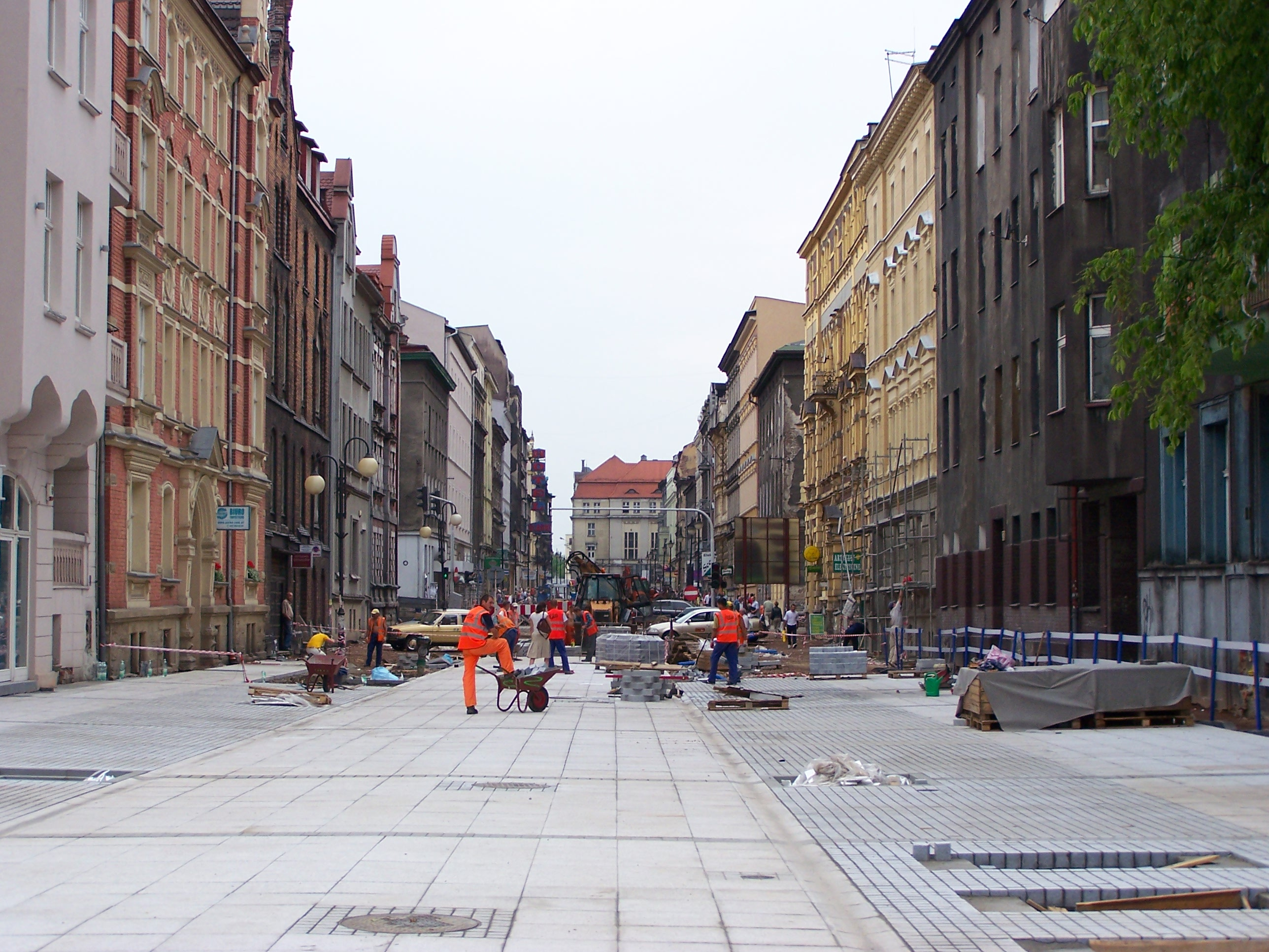 Mariacka Street in Katowice.